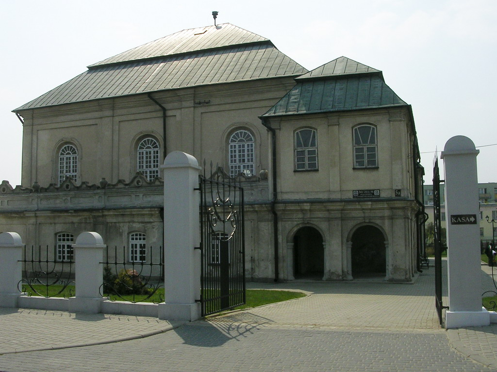 The Great Synagogue in Włodawa, Poland.